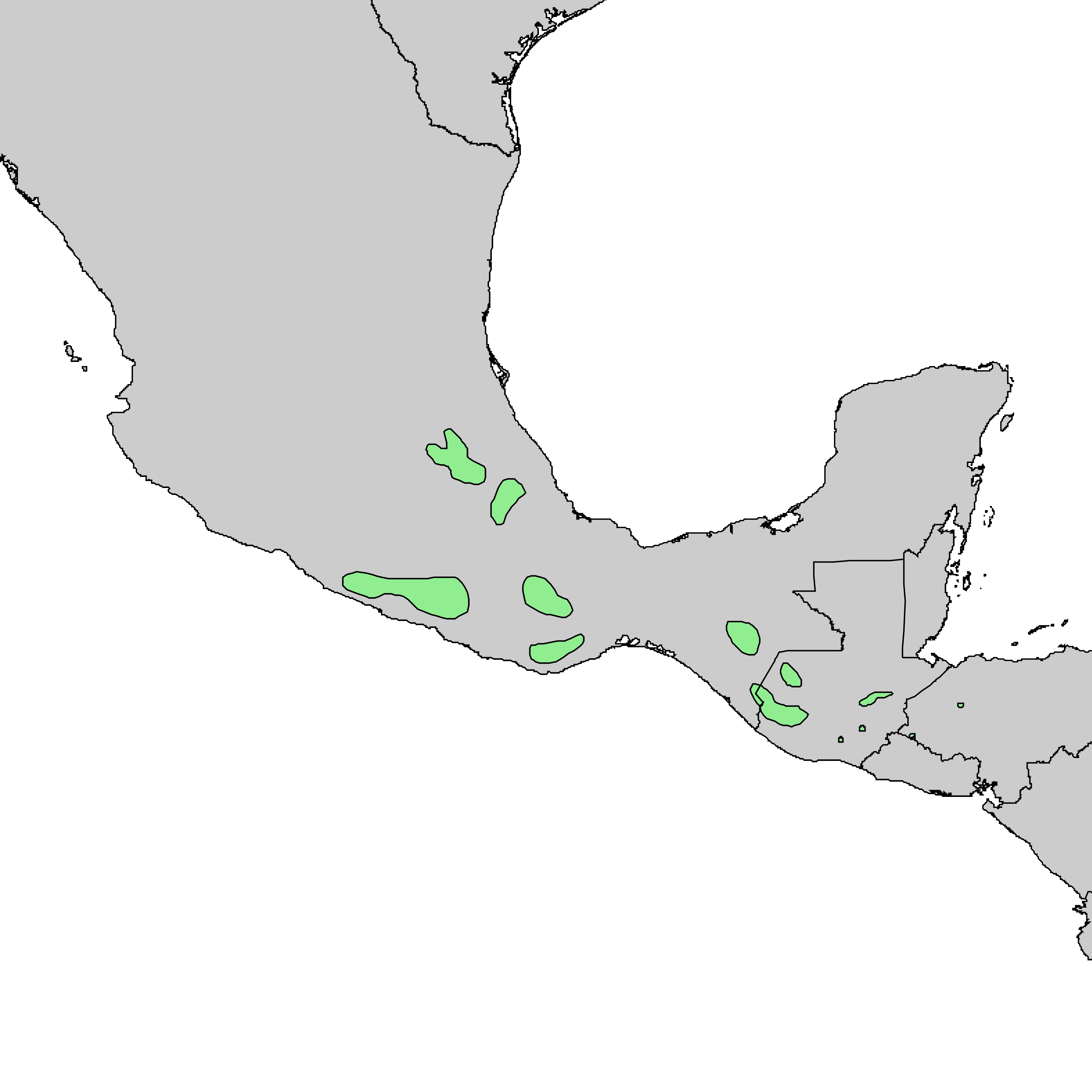 Natural distribution map for Pinus ayacahuite — Mexican white pine.